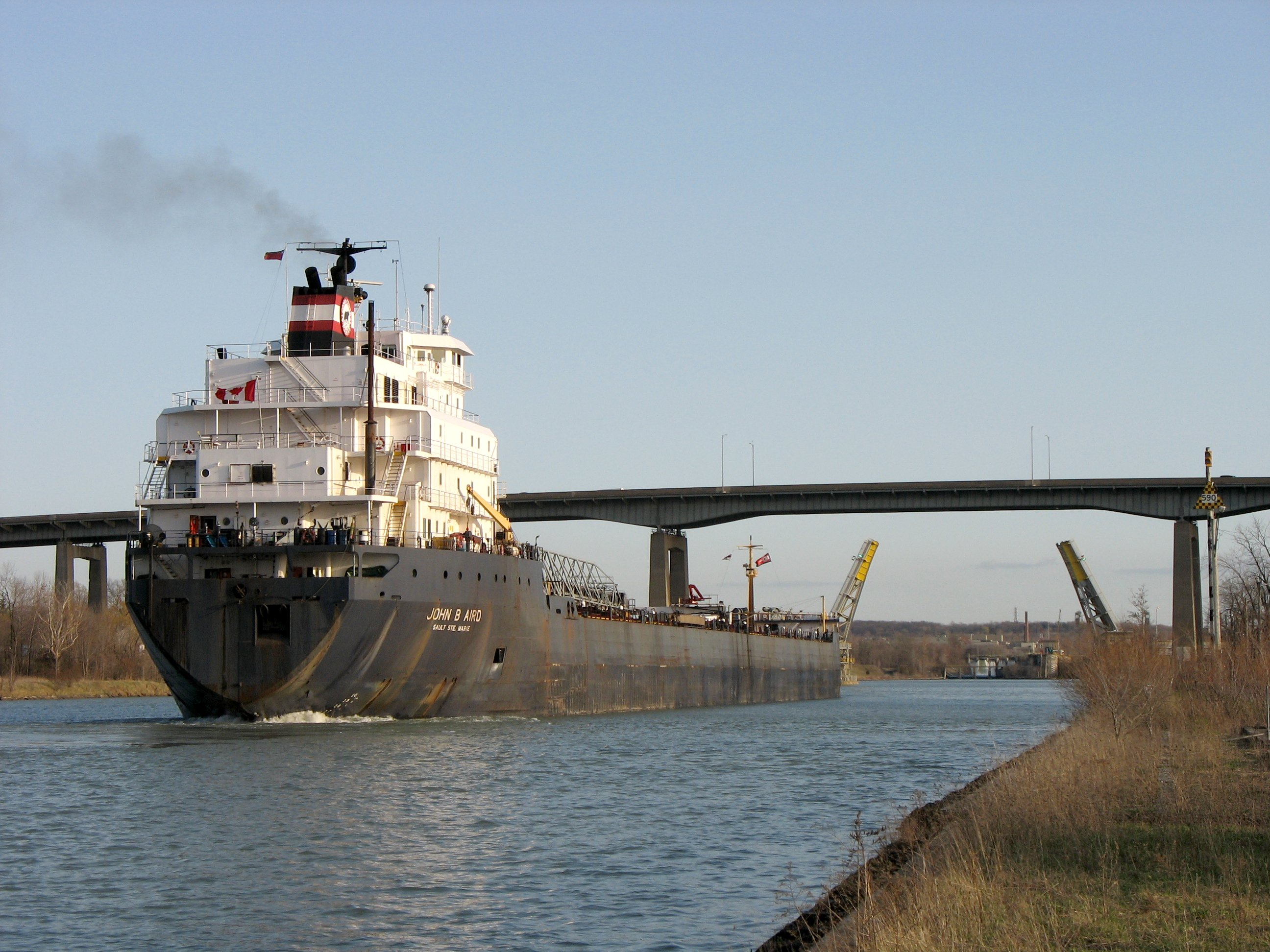 John B. Aird transiting the Welland Canal, just north of St. Catharines Skyway bridge. IMO number : 8002432 Call Sign : VCYP Gross tonnage : 22881 Type of ship : Self-Discharging Bulk Carrier Year of build : 198